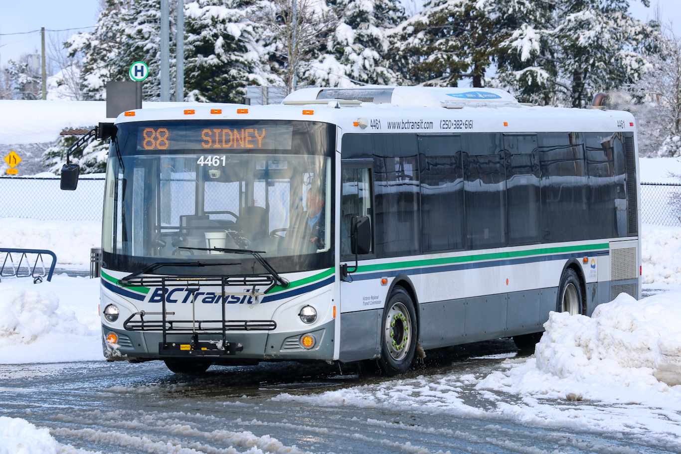 BC Transit Vicinity 35' doing route 88 to Sidney at McTavish Exchange